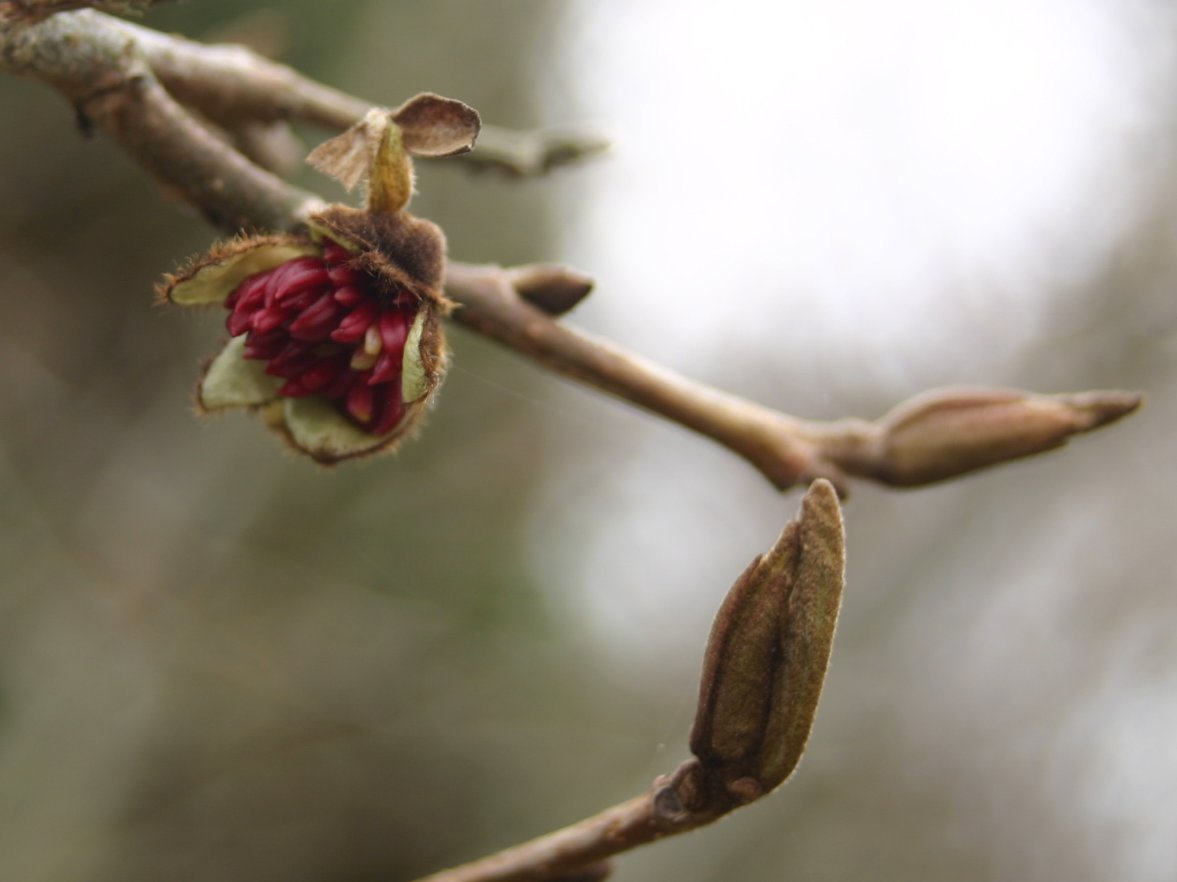 Parrotia persica: Young flowers